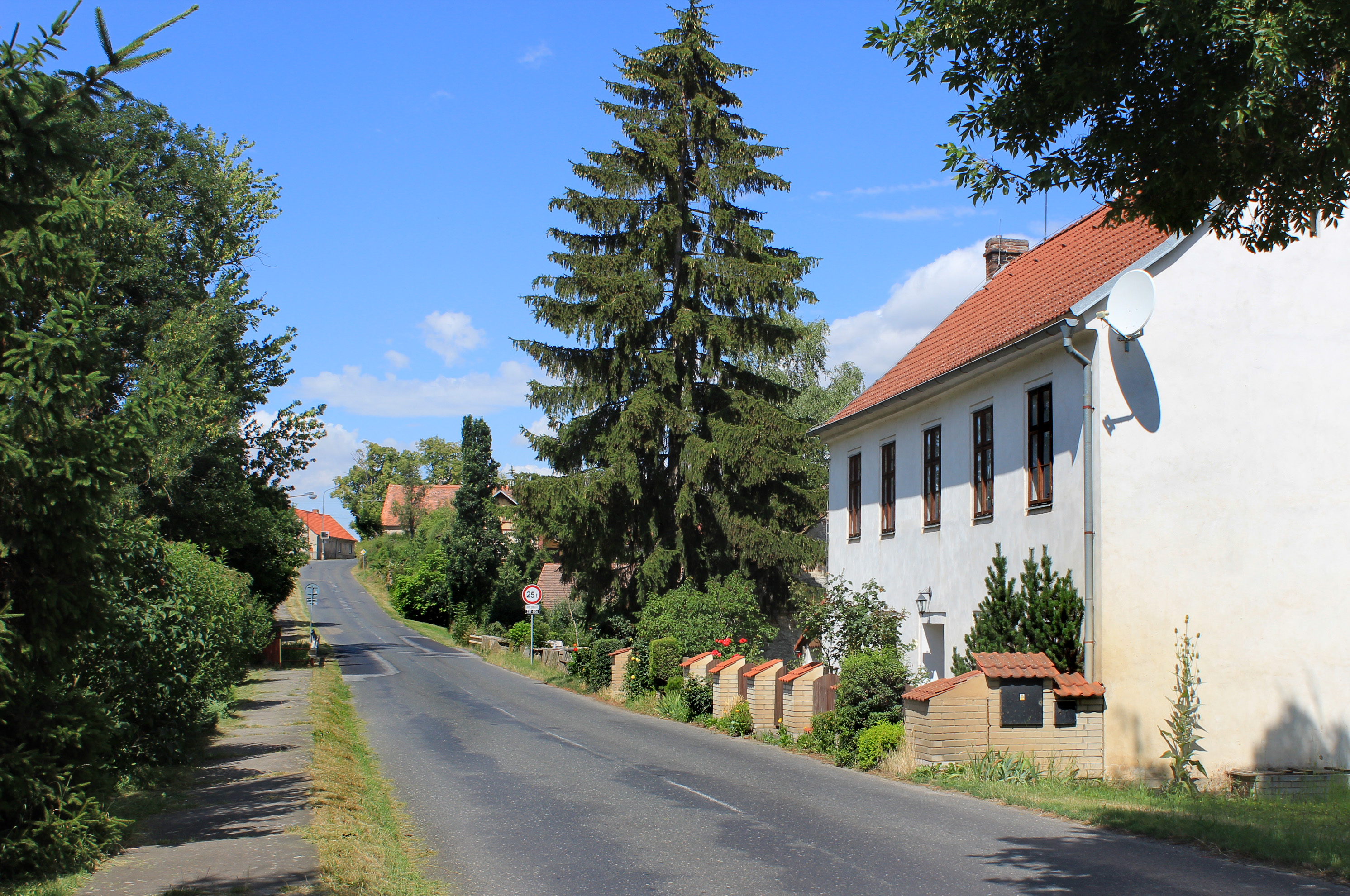 Road No 337 in Pucheř, part of Kluky, Czech Republic.